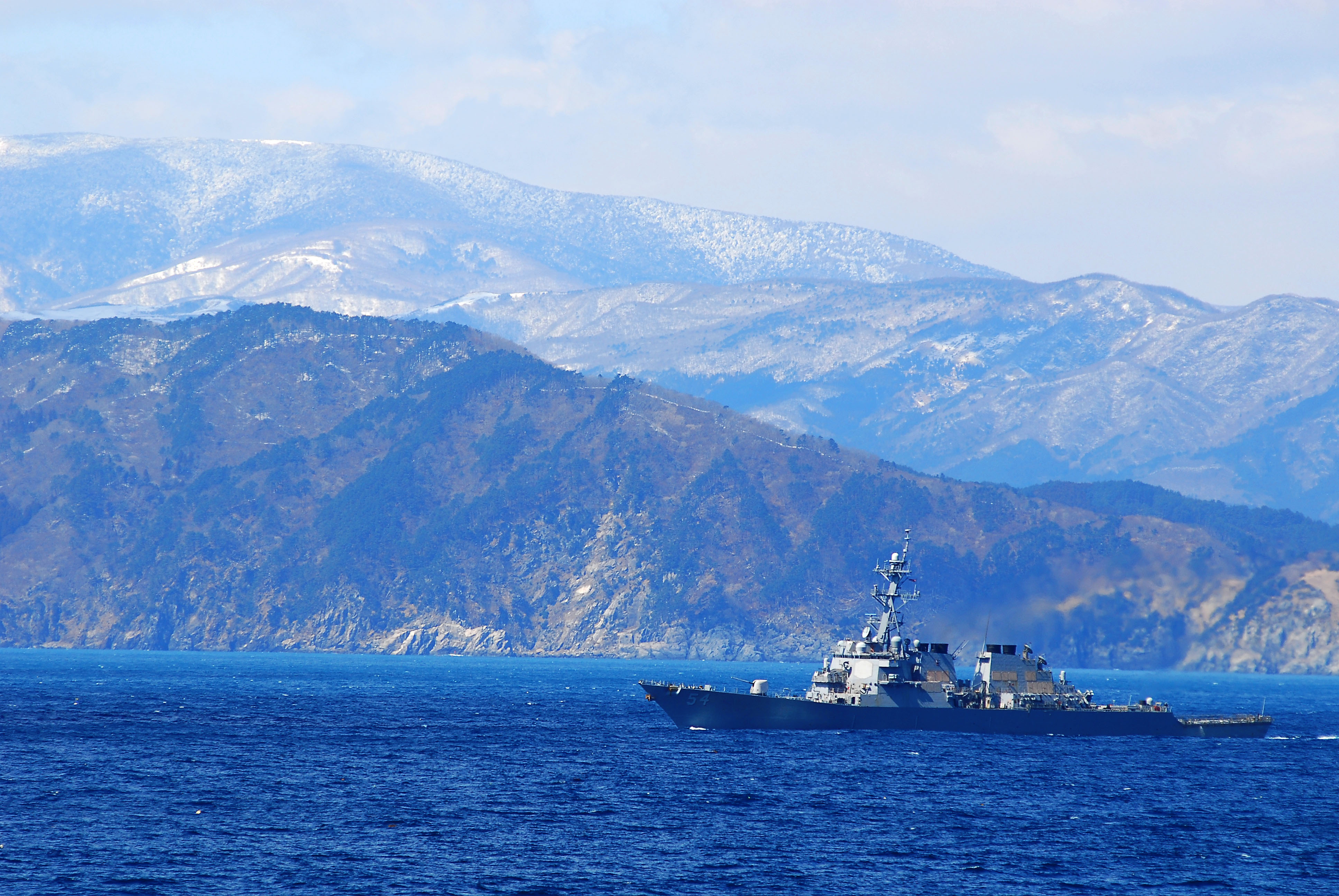 PACIFIC OCEAN (March 18, 2011) The guided-missile destroyer USS Curtis Wilber (DDG 54) is underway off the coast of Japan providing humanitarian assistance to Japan as directed in support of Operation Tomodachi. (U.S. Navy photo by Mass Communication Specialist Seaman Apprentice Michael Feddersen/Released)